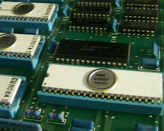 An 8080 made by Nippon Electric Corp.